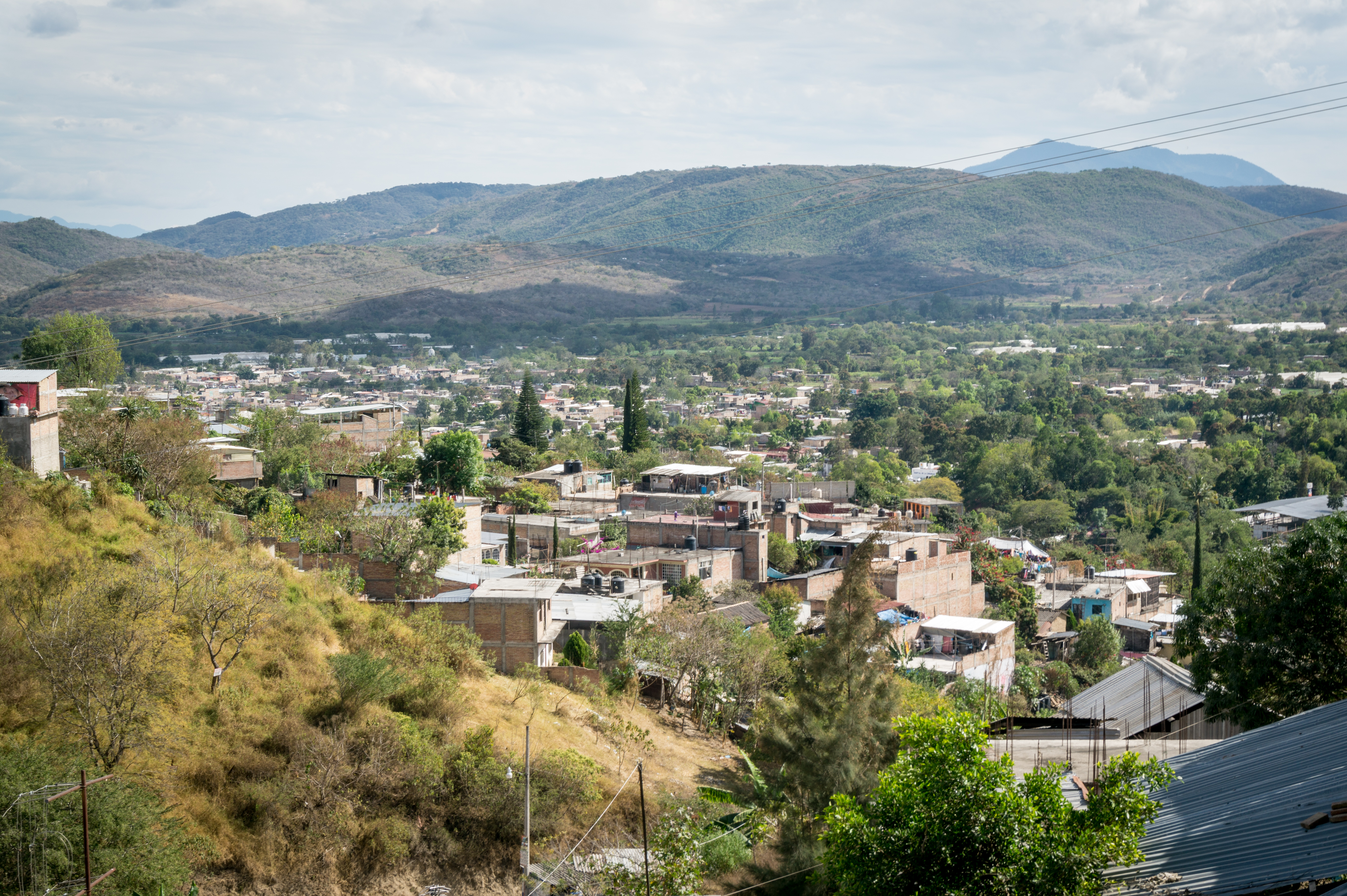 Tixtla view